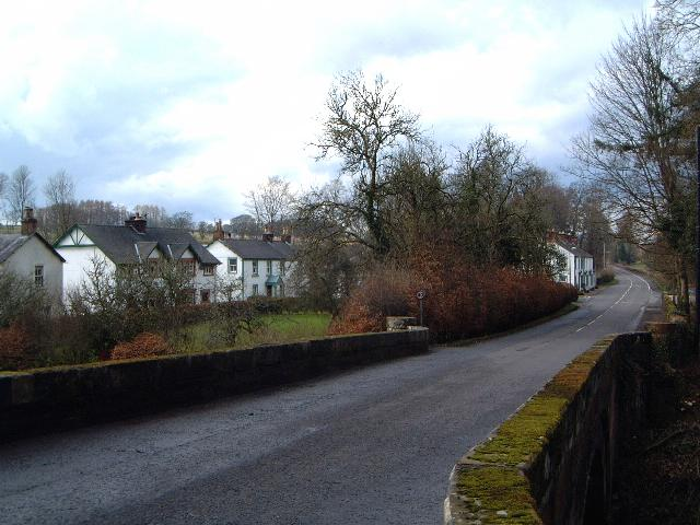 Kettleholm Small village close to the A 74(M). Picture taken from the bridge over the Water of Milk.